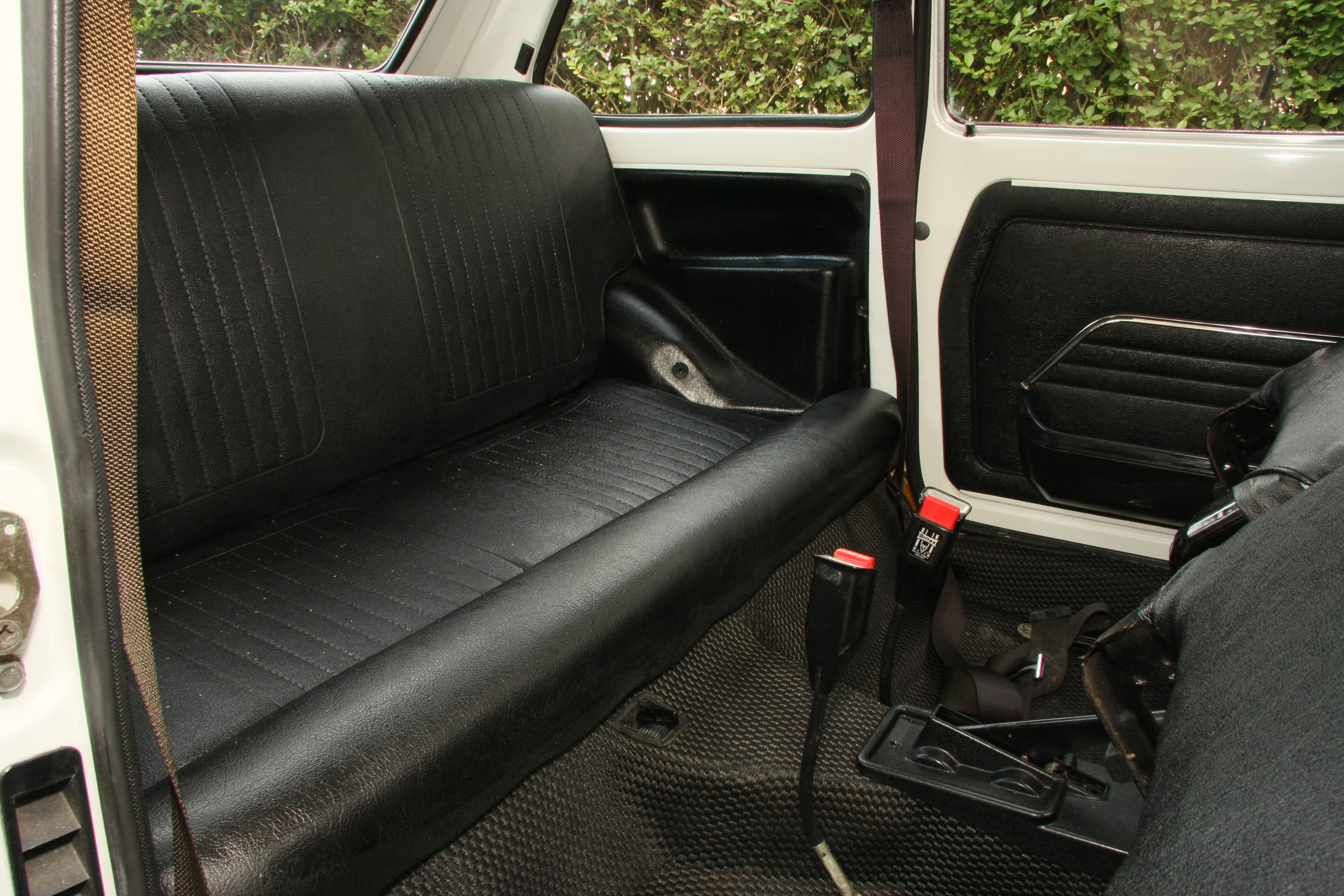 Rear seats of a white left hand drive Fiat 126 produced in 1973.jpg